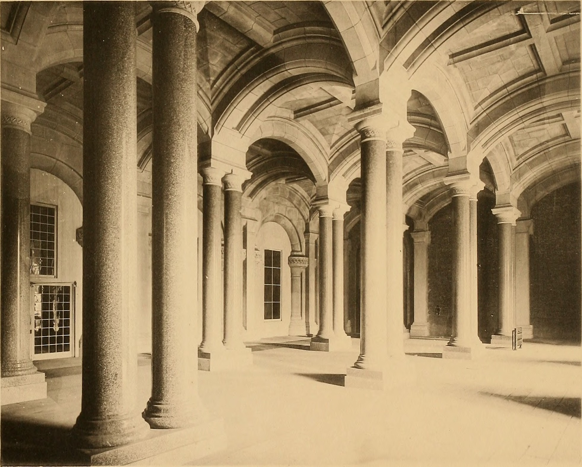 Title: Albany and the New York state capitol from original negatives by the Albertype co Year: 1891 (1890s) Authors: Subjects: Publisher: New York Text Appearing Before Image: O uj I- ui O u soo 2 C3 Text Appearing After Image: LOWER CORRIDOR.